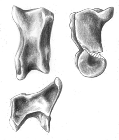 First phalanx of the first digit of Mononykus olecranus, GI (SPS) 107/6 (holotype). Left to right, dorsal and medial views, and below, in proximal view.